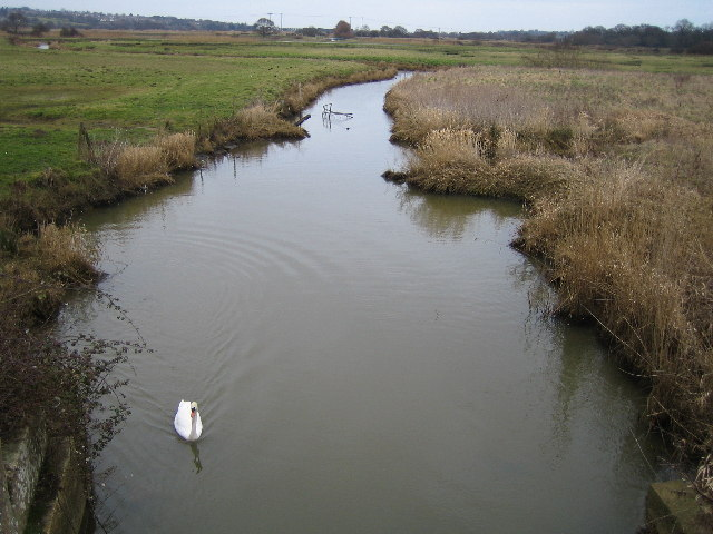 River Yar. Viewed looking north eastwards and downstream from the footbridge on the Yar River Trail.